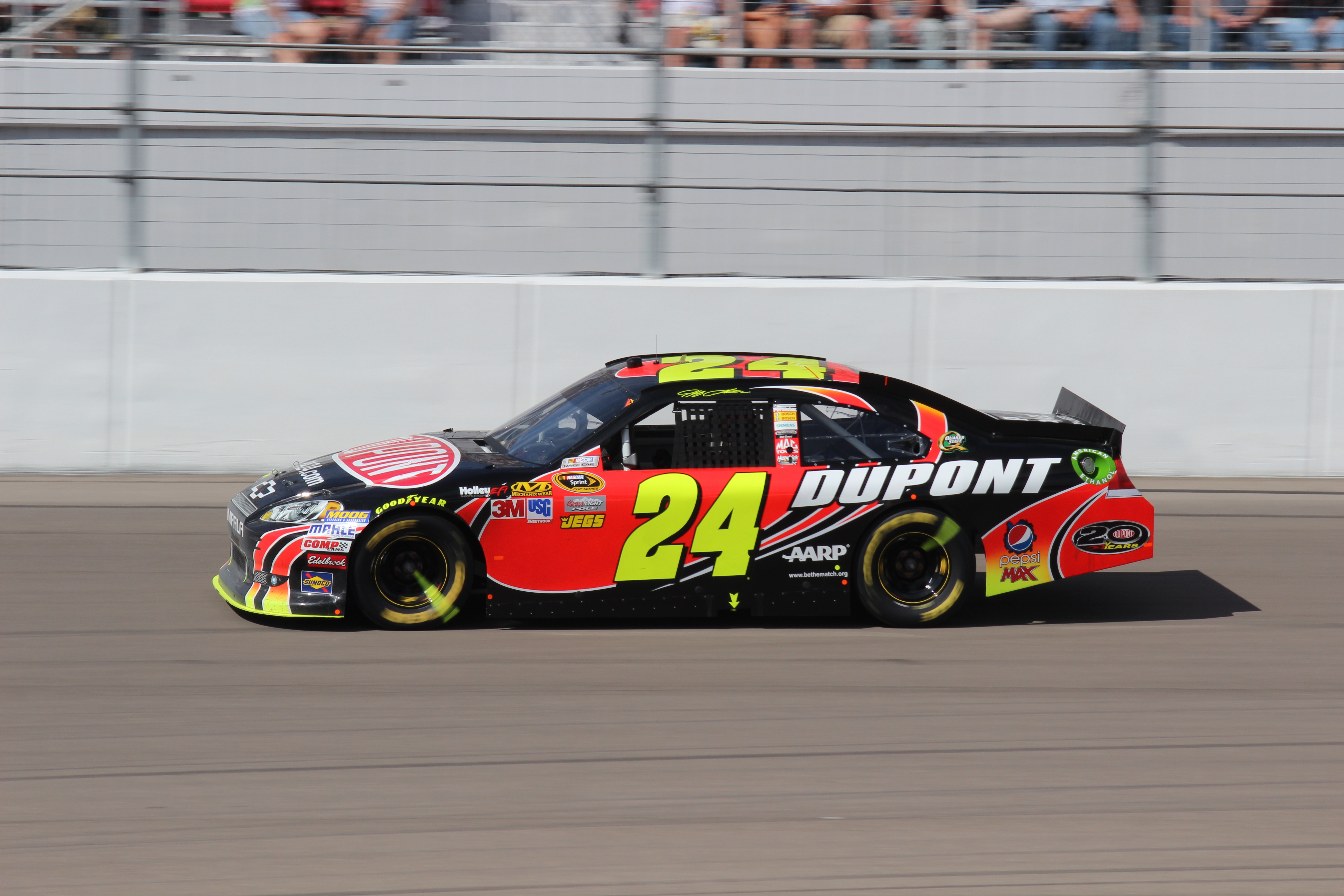 Jeff Gordon racing during the 2012 Kobalt Tools 400 at Las Vegas Motor Speedway.